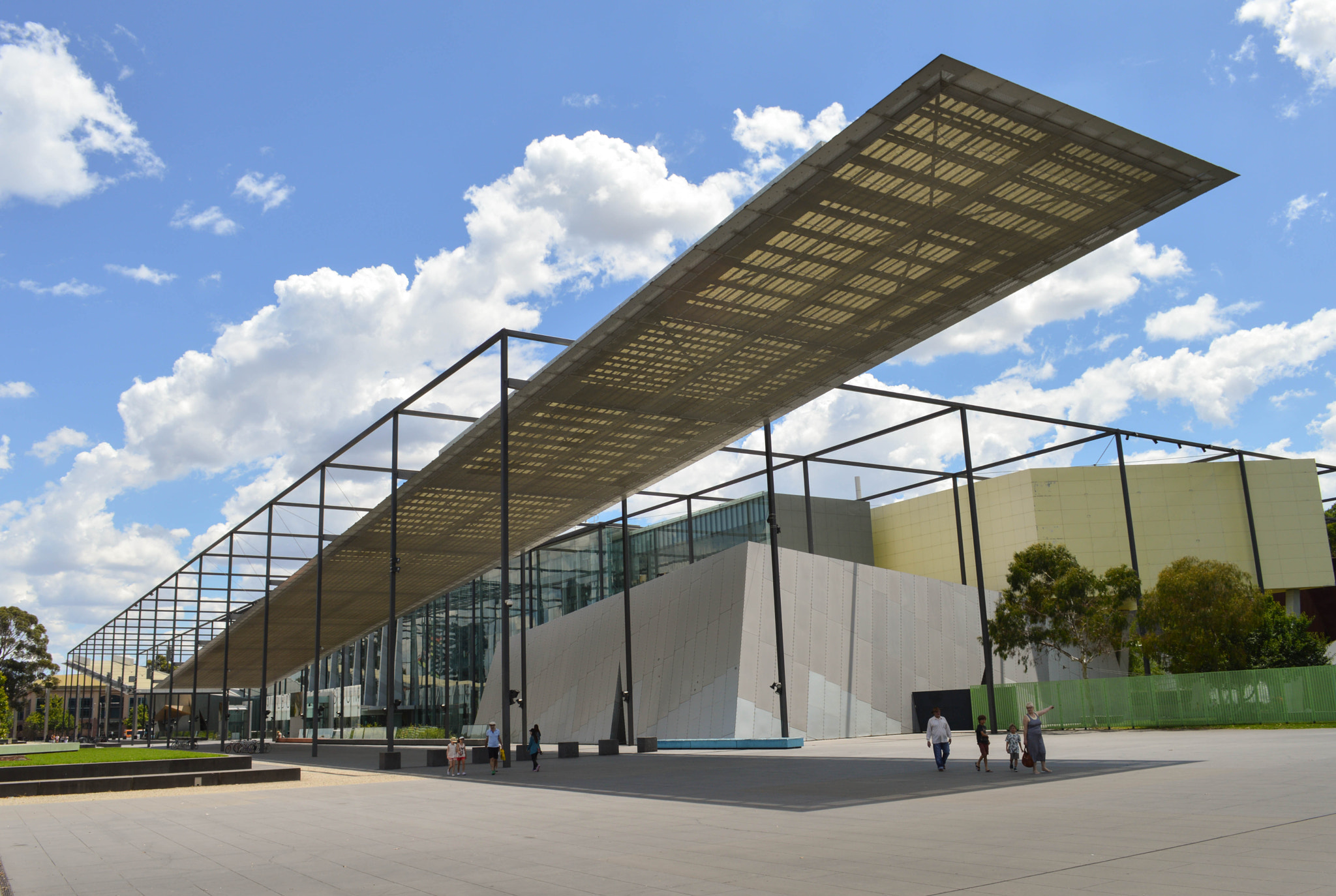 500px provided description: Melbourne Museum [#sky ,#city ,#travel ,#urban ,#architecture ,#building ,#industry ,#glass ,#modern ,#blue sky ,#office ,#outdoors ,#horizontal ,#construction ,#daylight ,#expression ,#technology ,#business ,#contemporary ,#fair weather]